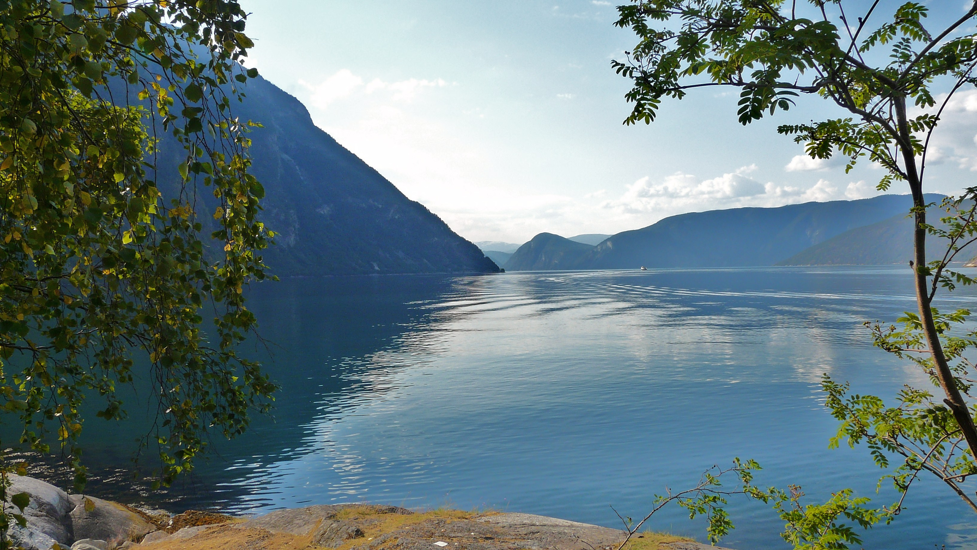 A view to Lærdalsfjorden (Sognefjorden) from the Fylkesvei 243 road near Sanden in 2008 August.